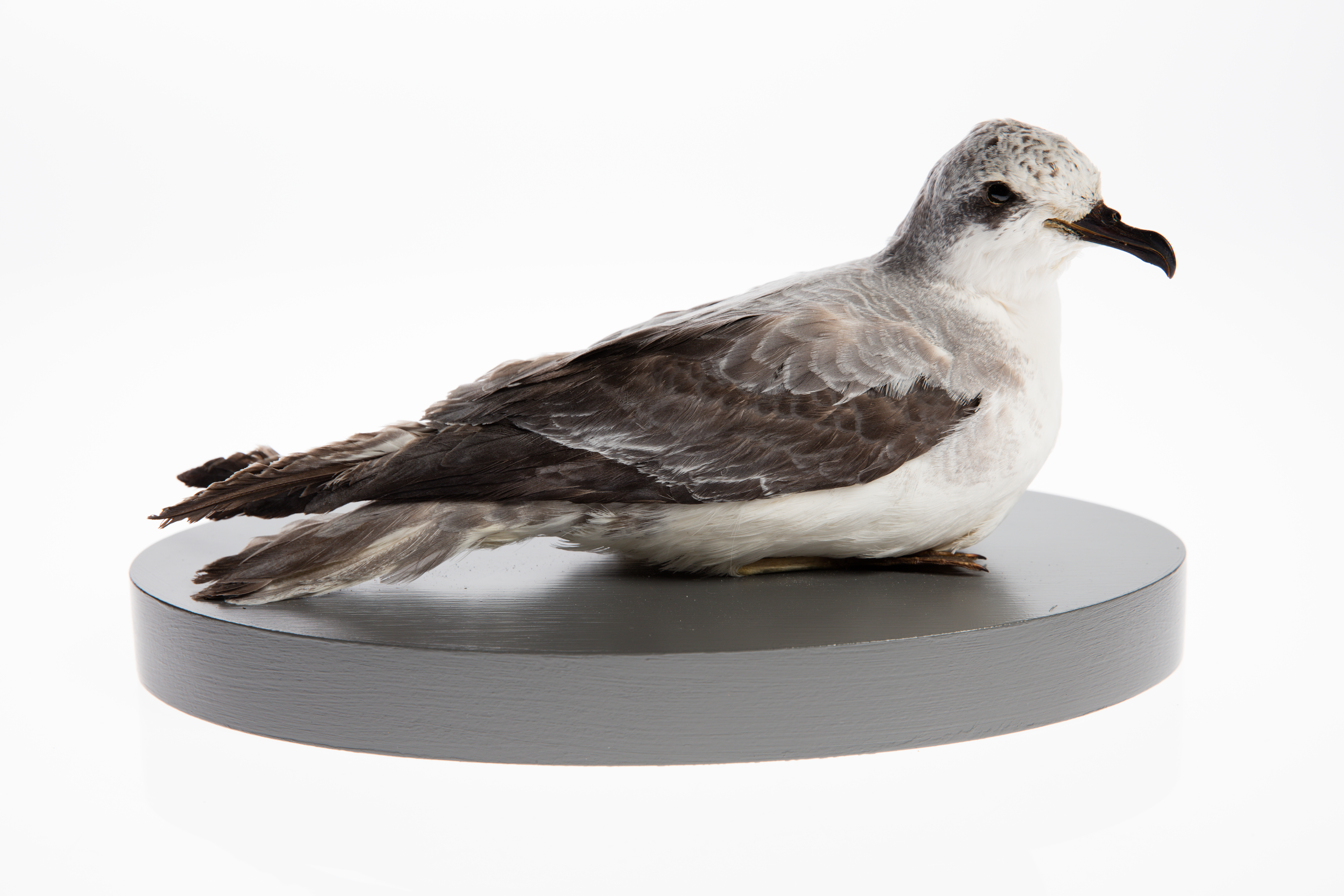 Cook's petrel, Pterodroma cookii, mount (AM LB4167) from the collection of Auckland Museum